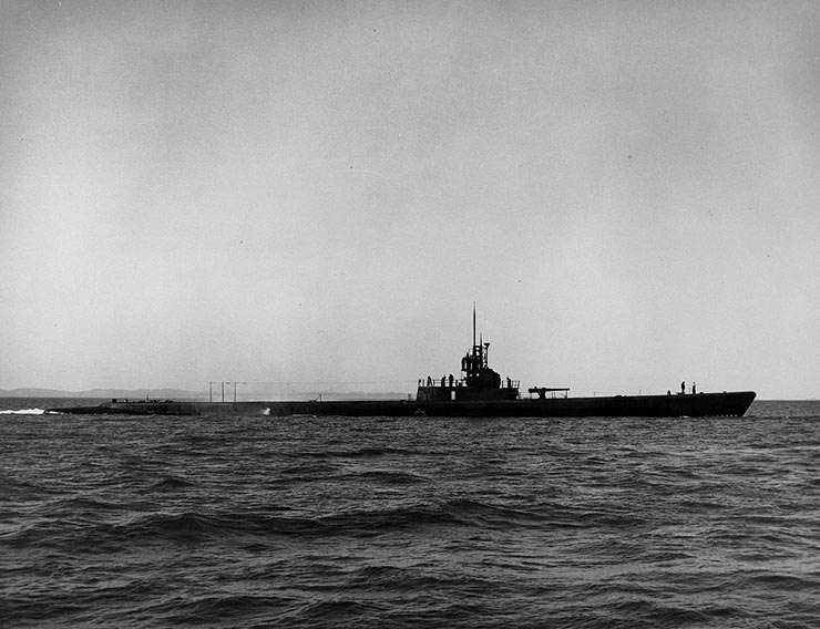 USS Scamp (SS-277) underway.